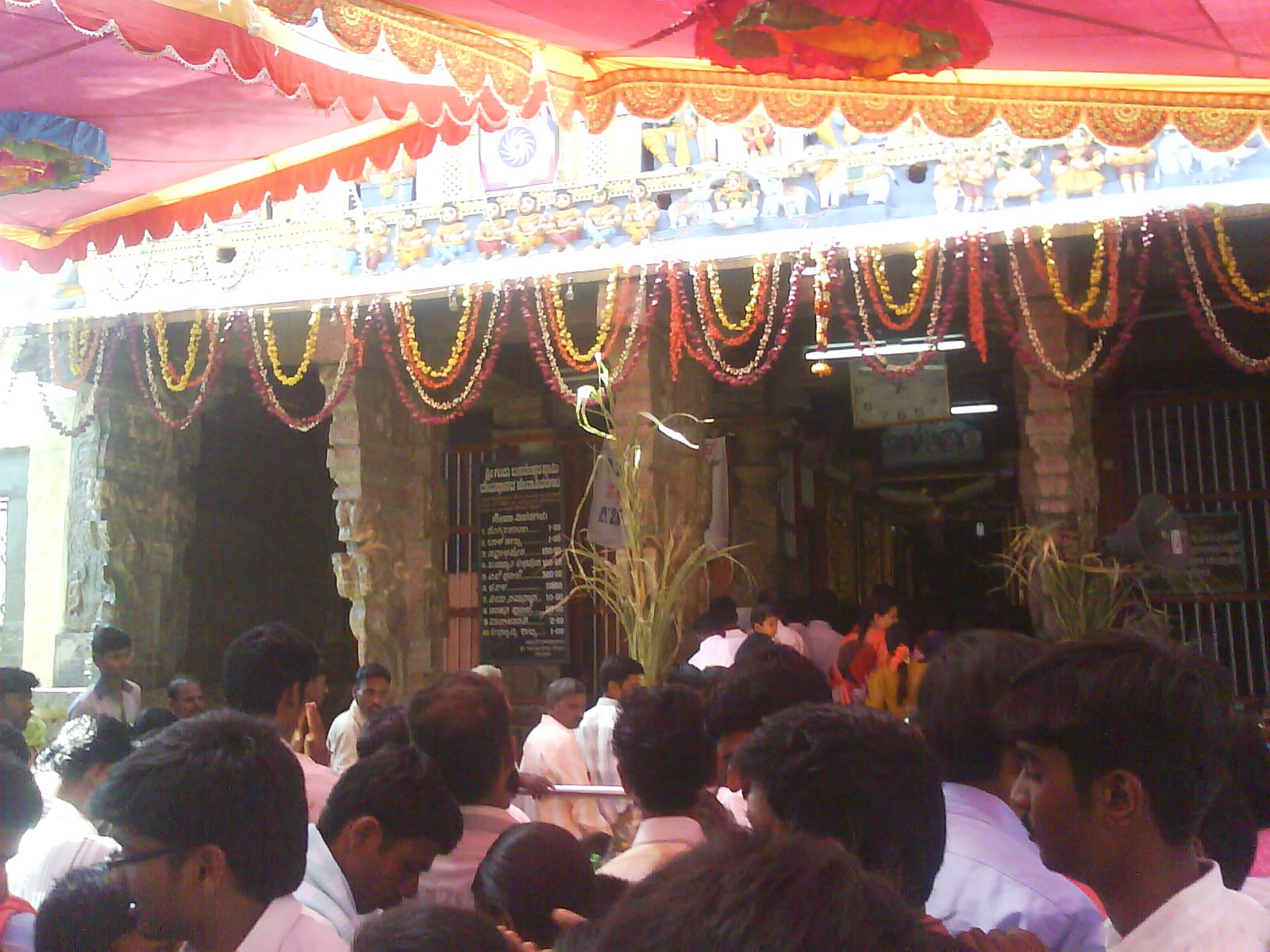 Darbar Mutta Entrance